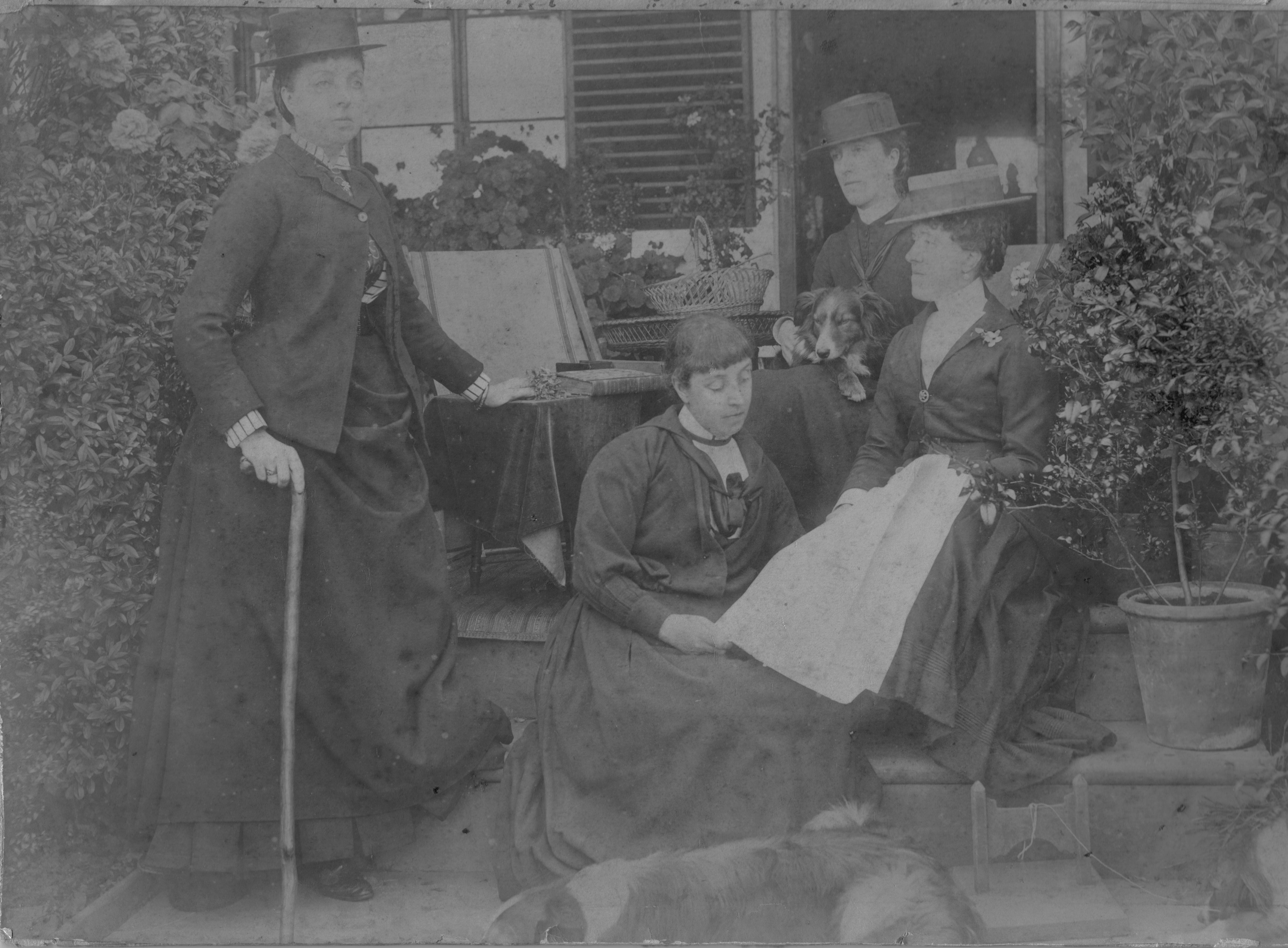 Bronwen Peers-Williams and her sisters Gwen, Madge and Blanche